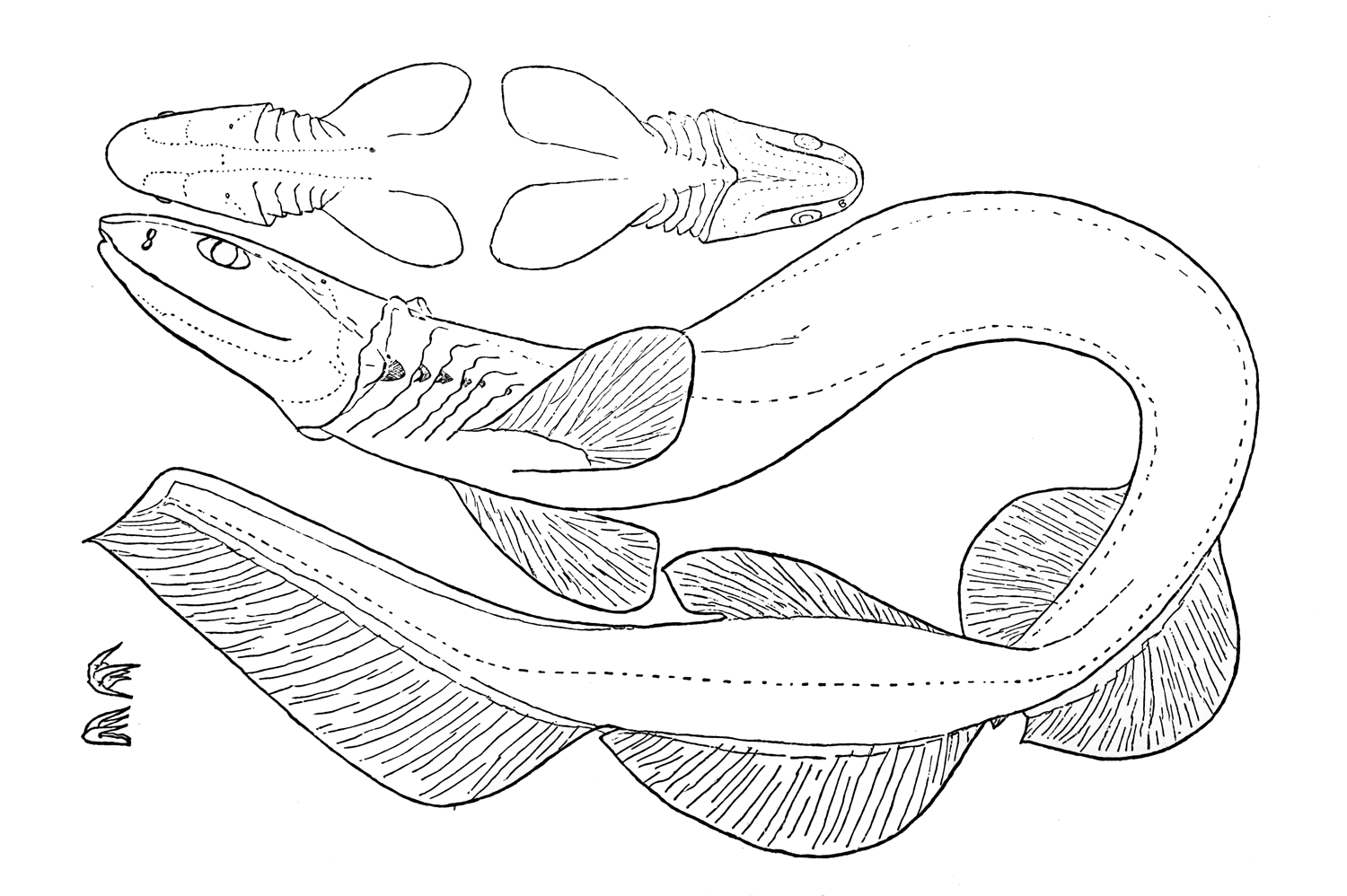 Illustration of a frilled shark (Chlamydoselachus anguineus) that accompanied the species description.